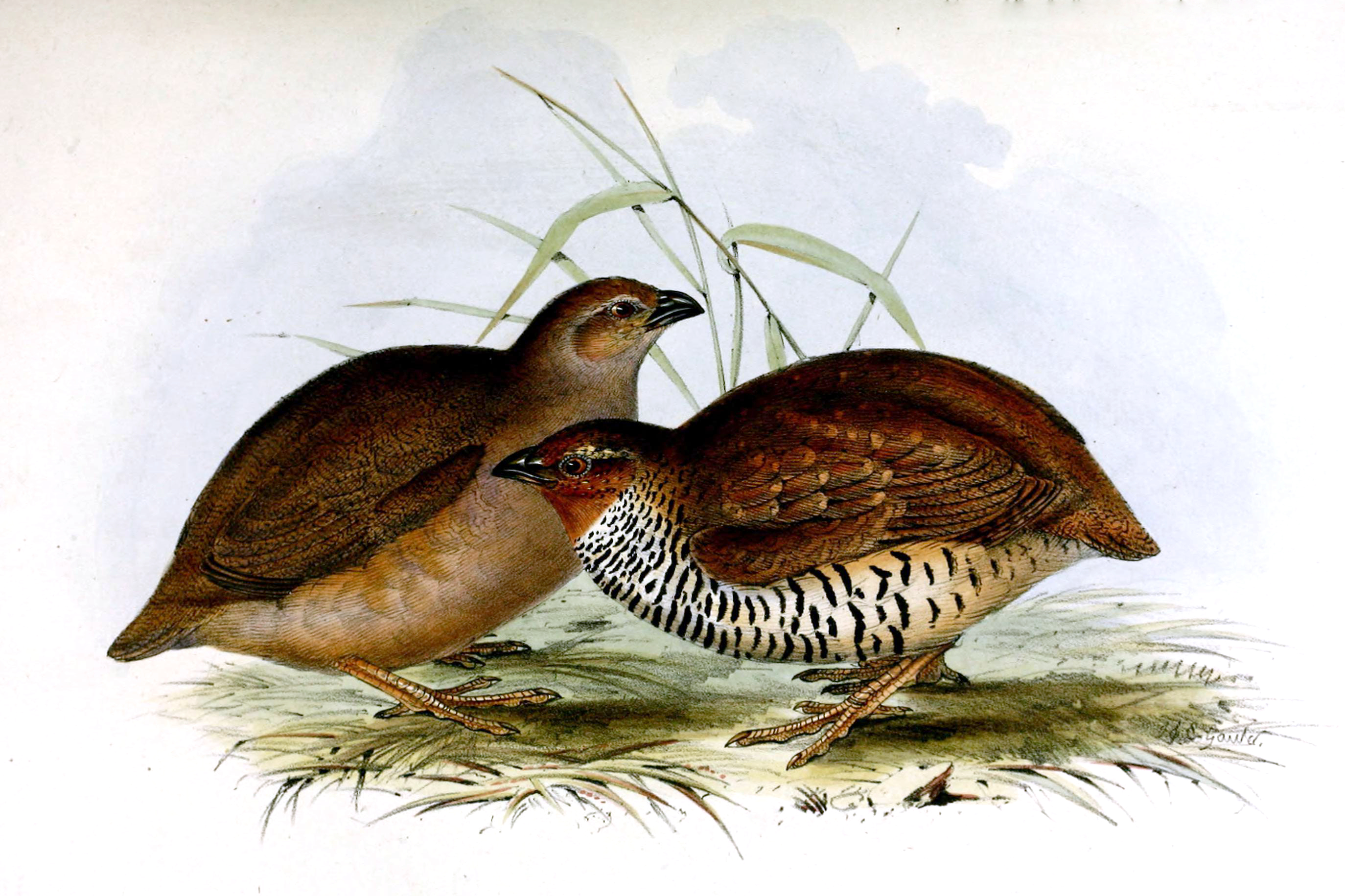 Perdicula argoondah